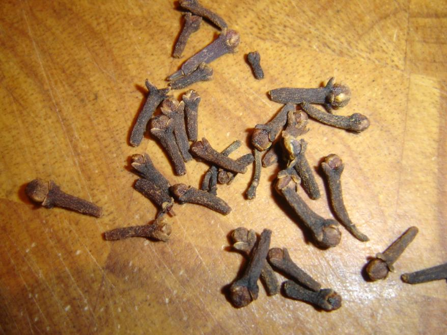 Dried cloves